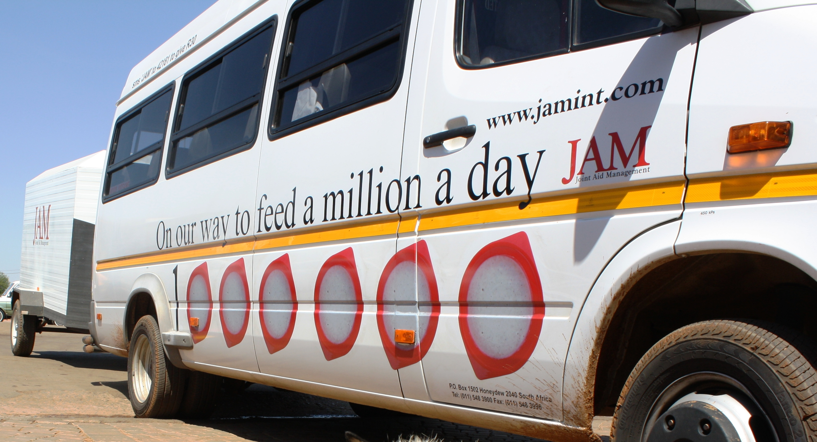 JAM = Joint Aid Management Slogan to feed 1 million children a day